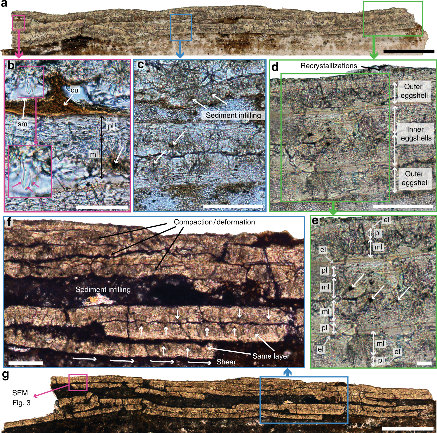 Fossil - Avimaia Schweitzerae - Egg Shell[1][2][3] Light microscopy reveals multiple layers of eggshell, compacted and disturbed by sediments. The two-dimensionally preserved egg reveals between four and six layers in cross-section (a). Parts of the cuticle (cu, dark brown layer) and shell membrane (sm) are also preserved (b). A close-up of the shell membrane (pink box) shows some fibrils (pink arrows), that are proteinaceous in living birds, but in this case might be at least partially mineralized. The eggshell layers are highly diagenetically altered (c, d). A four-layered area with a mirror-image pattern most likely represents an abnormal double-layered egg (d, e) that displays the tripartite ornithoid microstructure typically found in avian eggshells: a mammillary layer (ml) with organic cores (white arrows), a prismatic layer (pl), and an external layer (el). However, this mirror-image pattern (e) could also be the product of sediment displacement and lithostatic compaction, as exemplified in a second ground section (f, g). In this section (g), sediment displacement and shear have also partially created a mirror-image pattern, mimicking an abnormal multi-layered eggshell (f). Scale bar is 500 μm in a and g; 50 μm in b, 100 μm in c, d and f; and 20 μm in e References ↑ Bailleul, Alida M. (20 March 2019). "An Early Cretaceous enantiornithine (Aves) preserving an unlaid egg and probable medullary bone". Nature Communications 10. Retrieved on 22 March 2019. ↑ Pickrell, John (20 March 2019). "Unlaid egg discovered in ancient bird fossil". Science. Retrieved on 22 March 2019. ↑ Greshko, Michael (20 March 2019). "In a first, fossil bird found with unlaid egg - “I couldn’t even sleep at night,” the lead paleontologist says of her reaction to the discovery.". National Geographic Society. Retrieved on 22 March 2019.